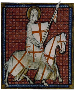 Miniature from Vies de Saints (BNF Richelieu Manuscrits Français 185), second quarter of the 14th century (1325-1350) [1]